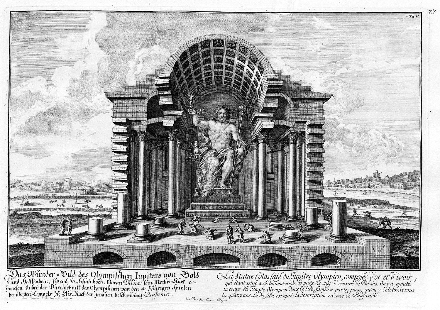 Illustration from "Entwurff einer historischen Architectur" (Project of a historic architecture). Statue of the Olympic Jupiter.